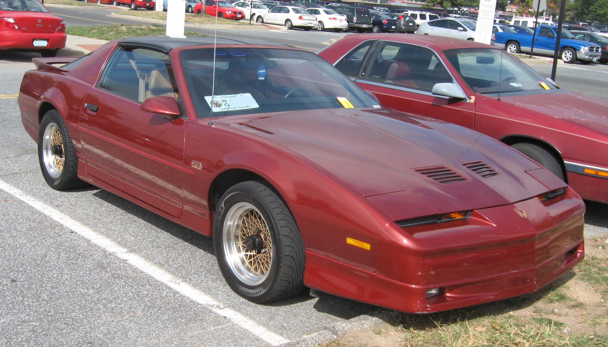 Pontiac Firebird photographed in College Park, Maryland, USA.